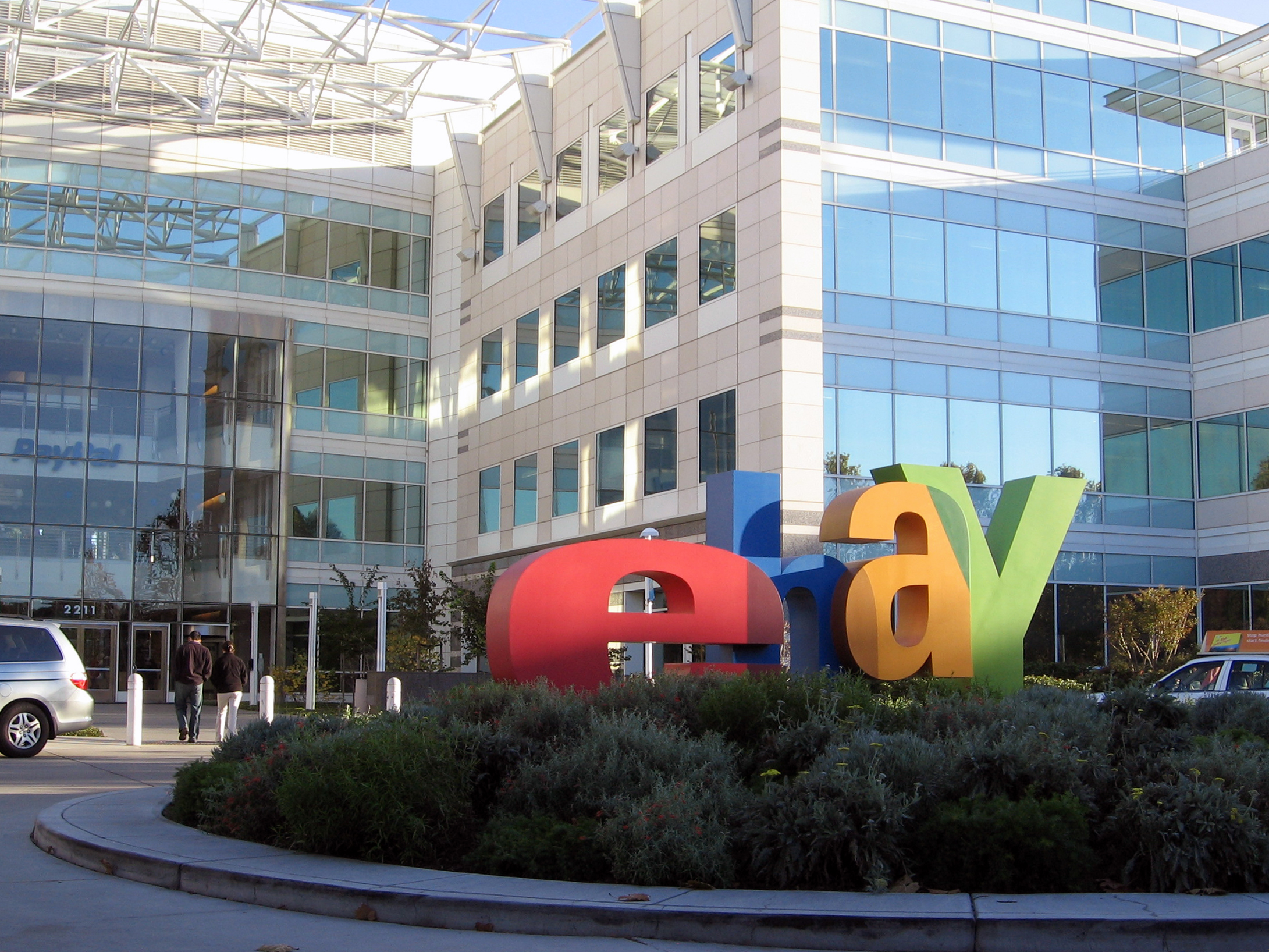 The PayPal/Ebay corporate headquarters building. 2211 North 1st Street, San Jose, California, 95131 USA. 📞 (402) 935-2050